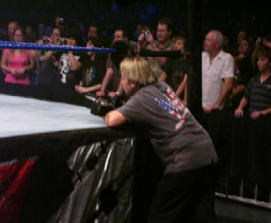 Image of WWE Referee Charles Robinson acting as Tour Photographer